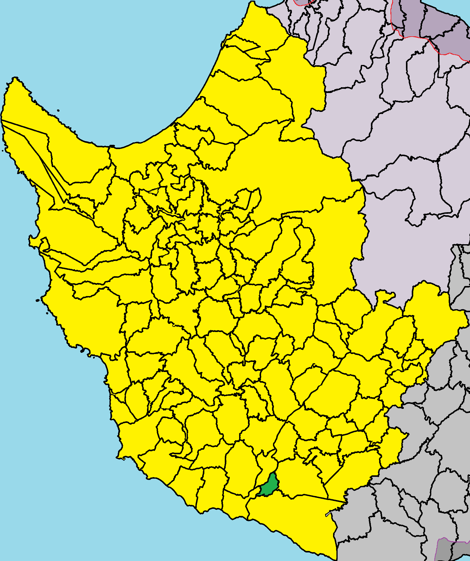 Nikokleia in Paphos District.